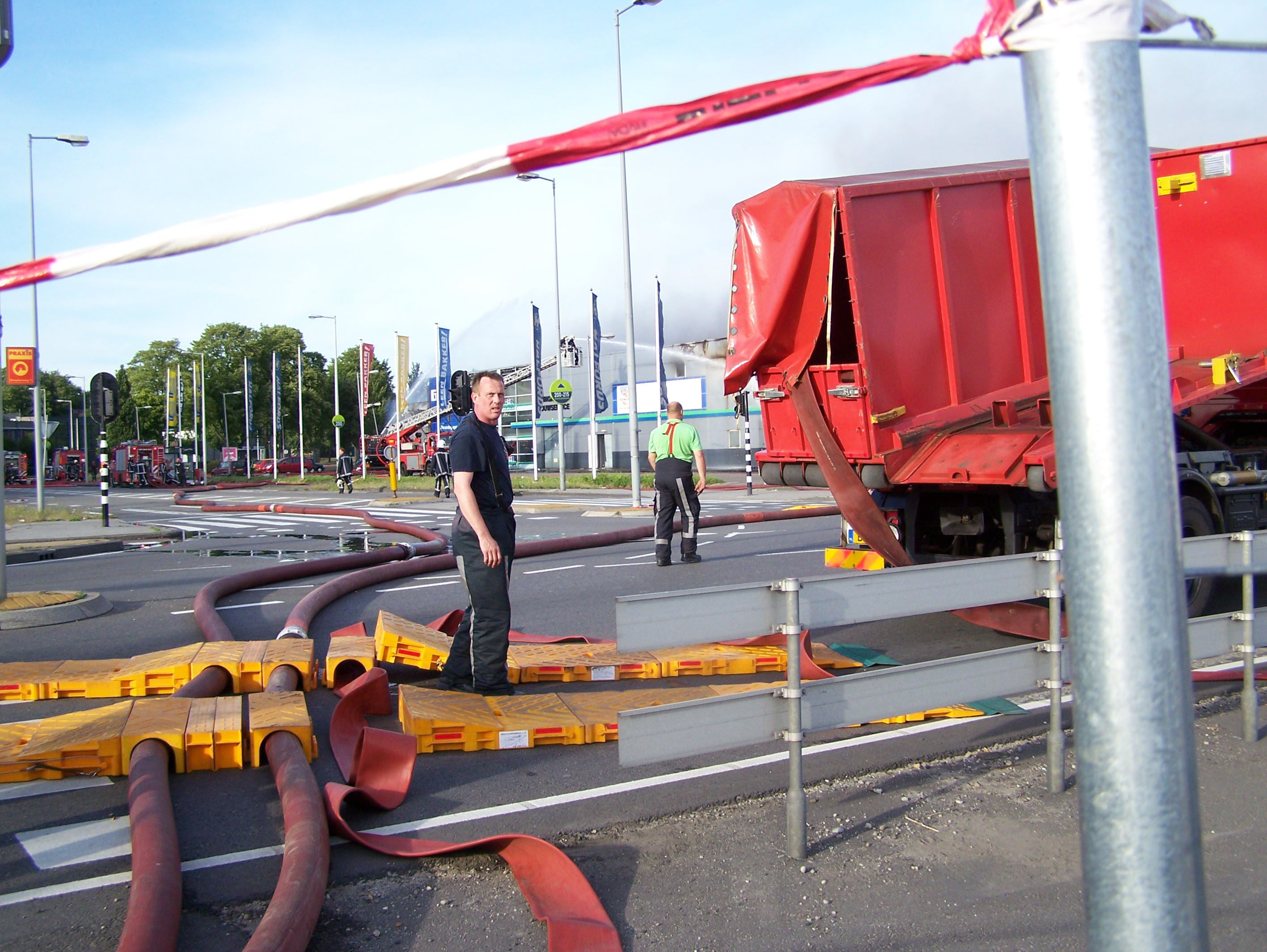 firefighting watertransportsystem during deployment, 150mm hose is being unrolled from the truck, 2 hoses are already in operation